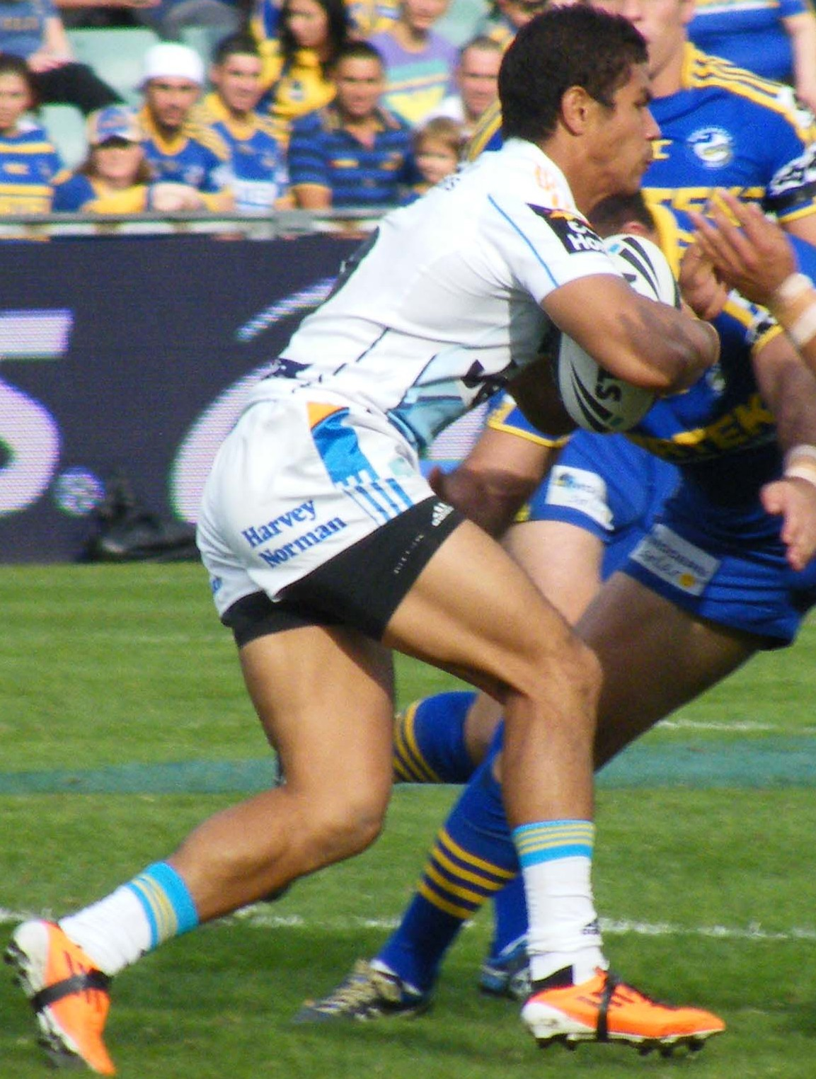 David Mead